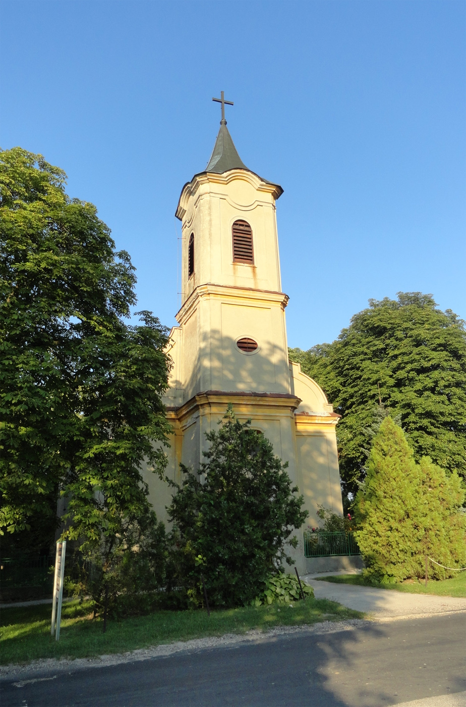 Ácsteszér - Saint Martin roman catholic church (Komárom-Esztergom County, Hungary)